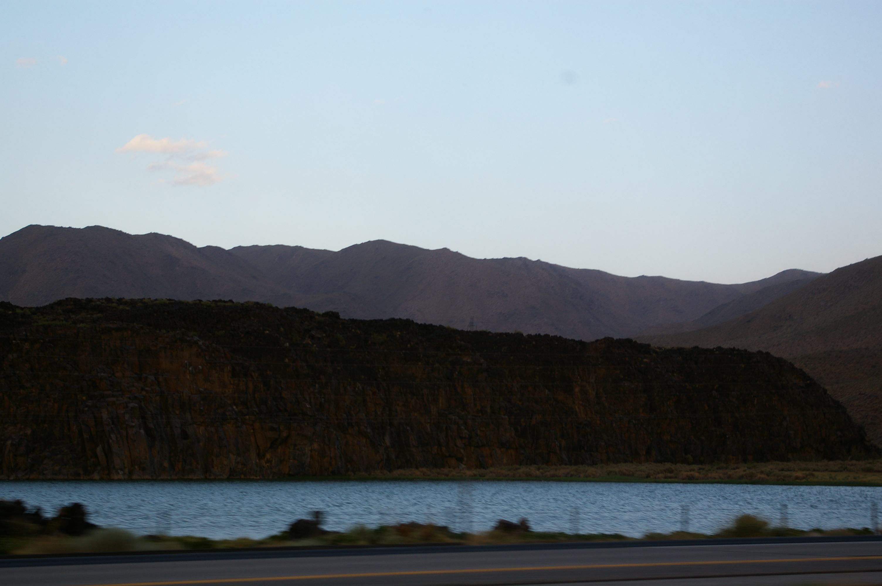 Volcanic rock, common along the U.S. Route 395 in California corridor